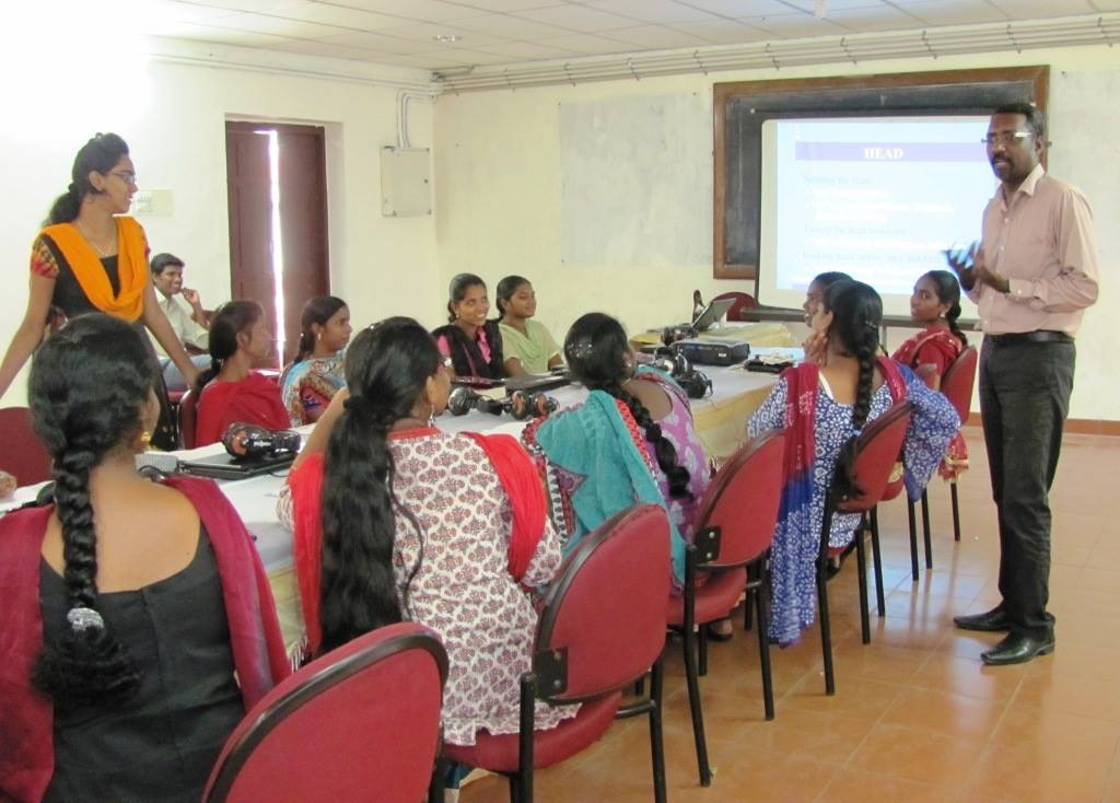 Leadership Training